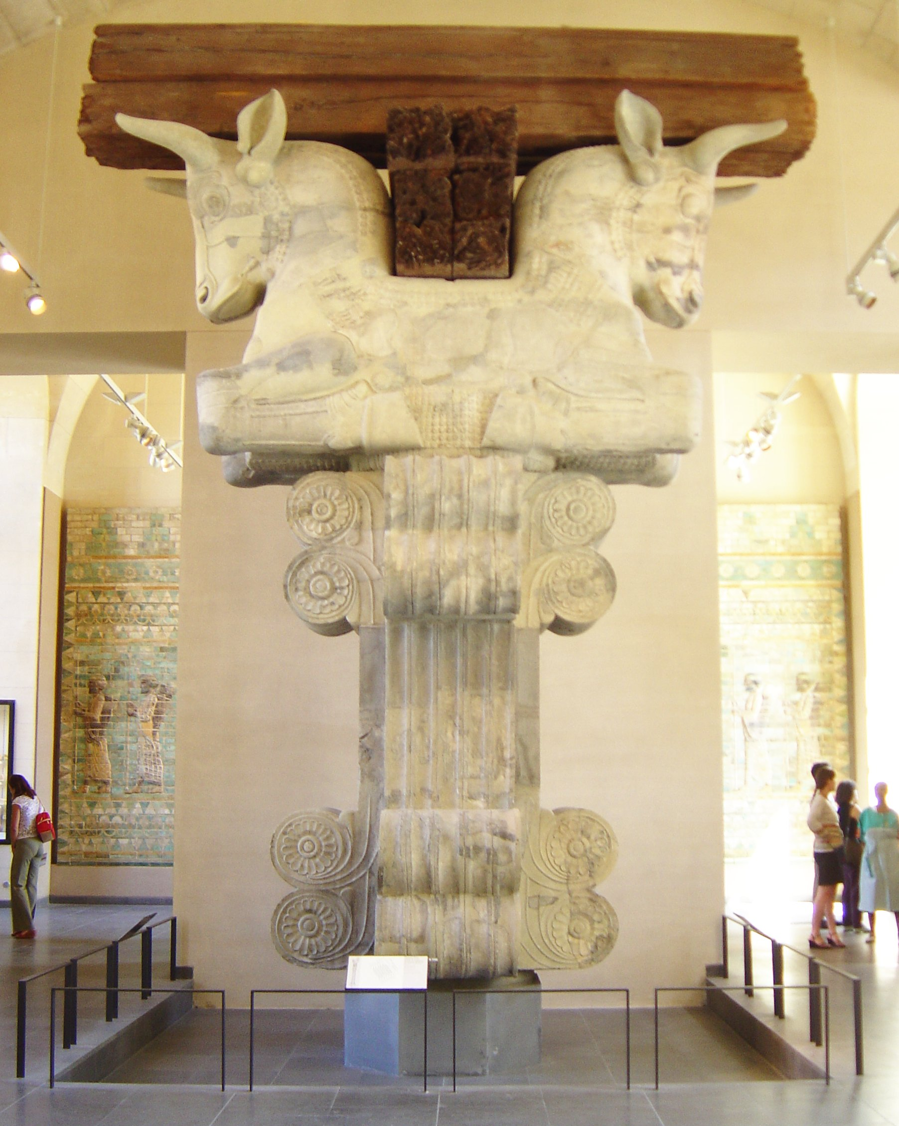 Double bull-capital from the Apadana (audience chamber) of Darius' palace at Susa.